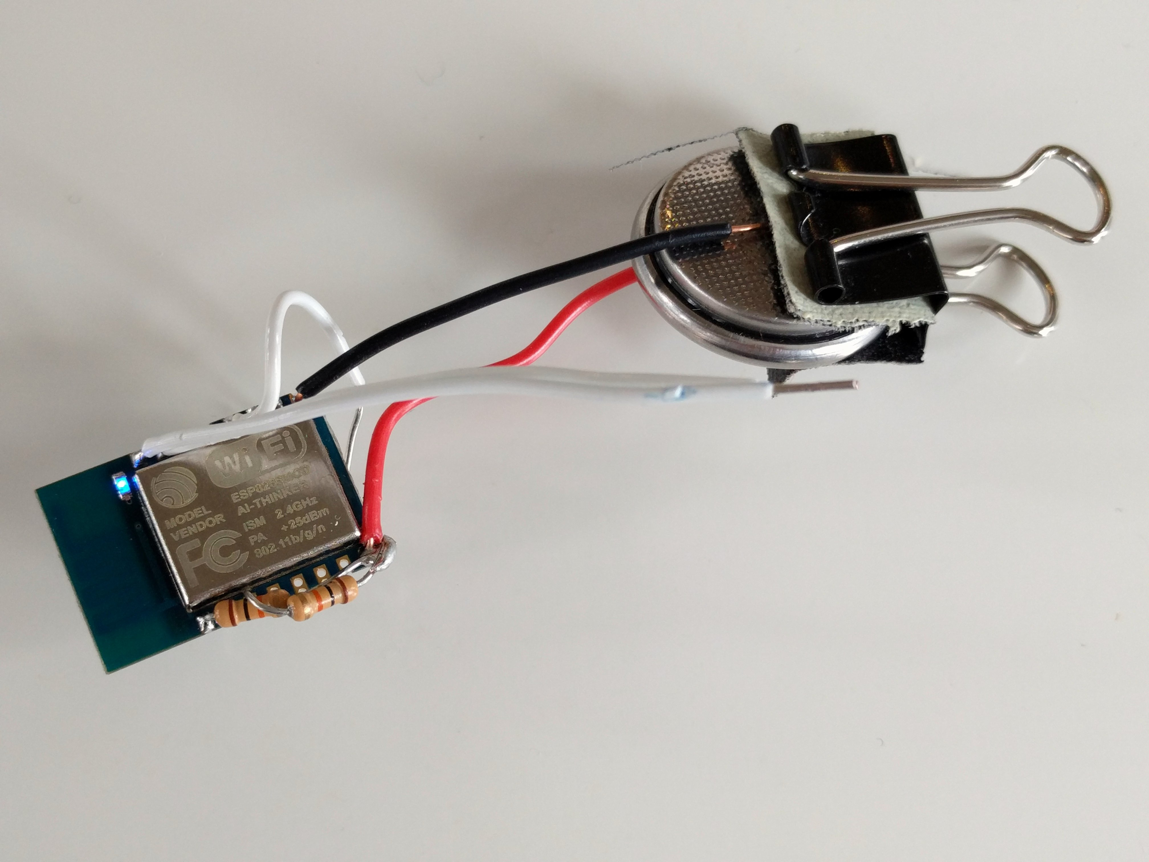 An ESP8266 module powered by a coin cell battery